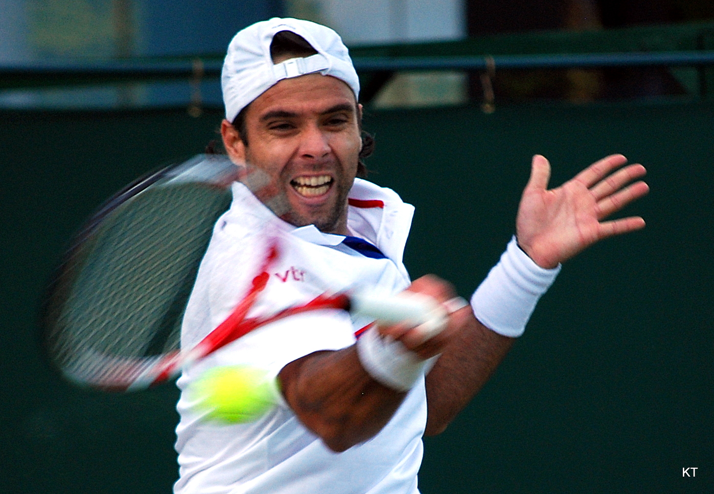 Fernando Gonzalez during his first round match with Alexandr Dolgopolov. Gonzalez won 6-3, 6-7, 7-6, 6-4. Day 2 of Wimbledon 2011.